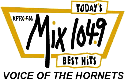 Logo for the "Voice of the Hornets" (KFFX-FM), for their broadcast coverage of Emporia State Hornets athletic games.